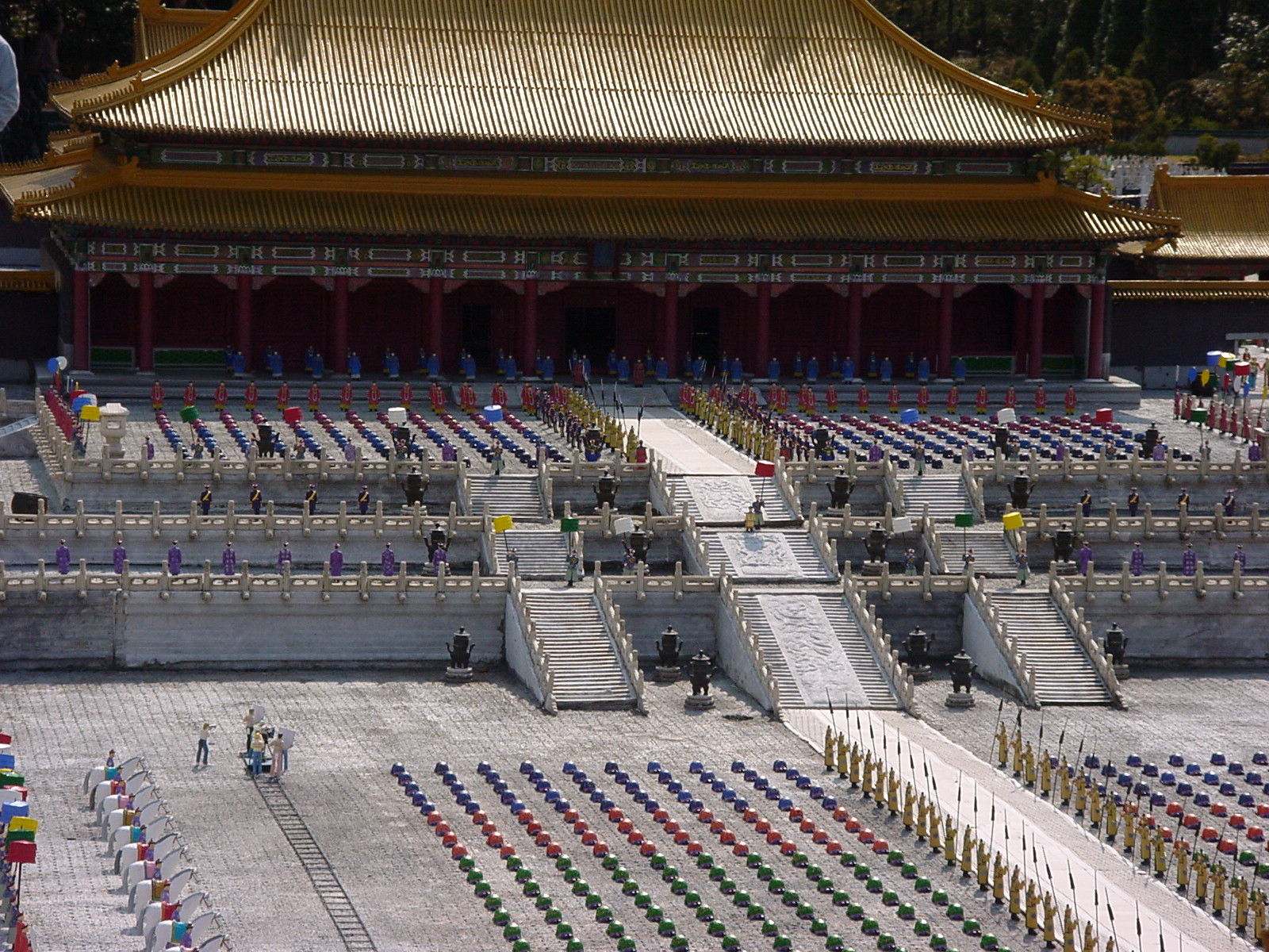 1:25 scale miniature scene depicting the filming of the movie The Last Emperor at the Forbidden City at Tobu World Square.